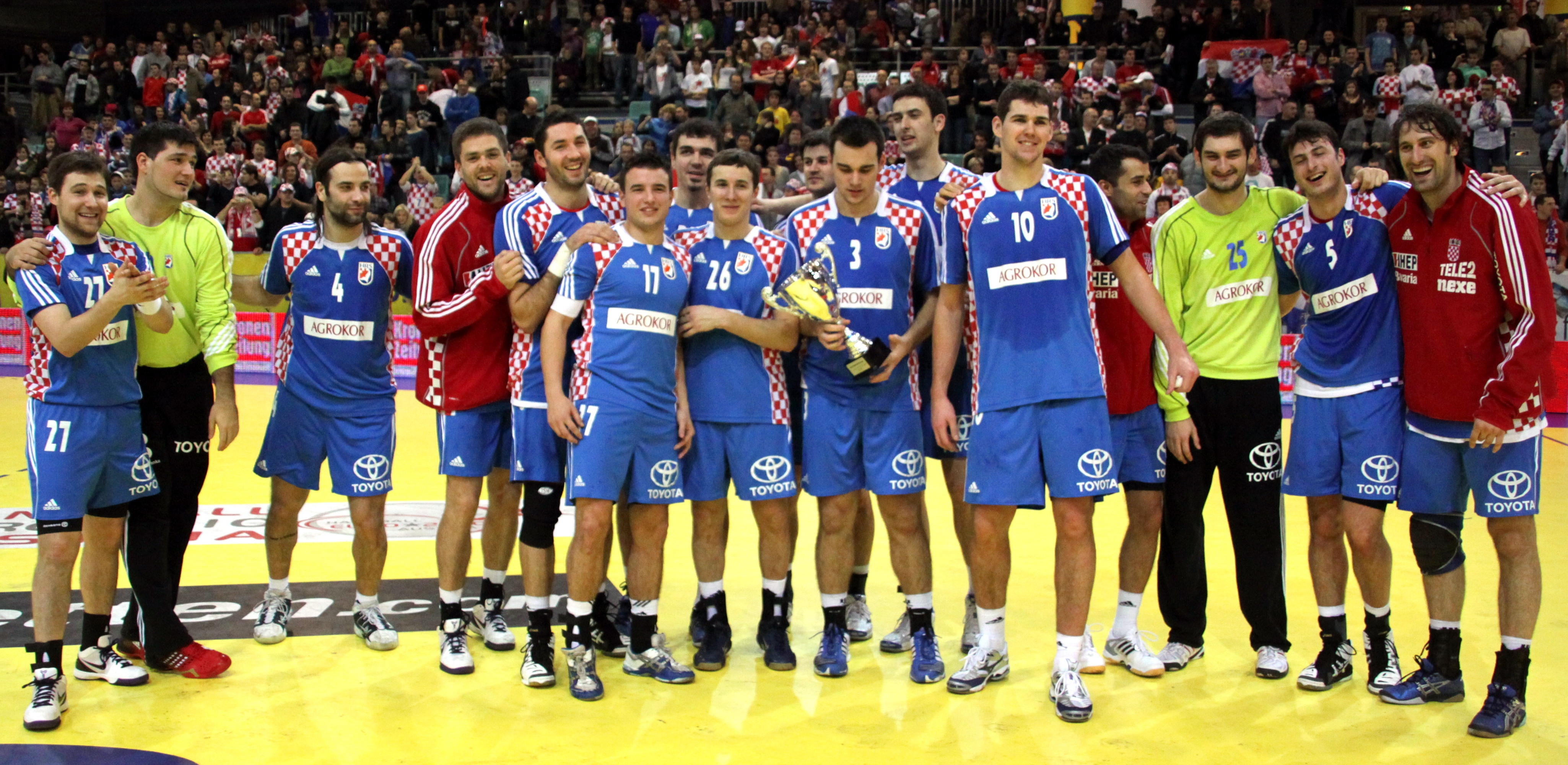 Croatia national handball team hr: Hrvatska rukometna reprezentacija Standing left to right: Čupić, Čarapina, Balić, Vuković, Lacković, Mataija, Buntić, Štrlek, Valčić, Marić, Kopljar, Gojun, Zrnić, Alilović, Duvnjak, Vori.